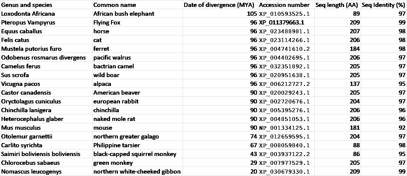 This graph shows the date of divergence, sequence length, and sequence identity of various orthologs.